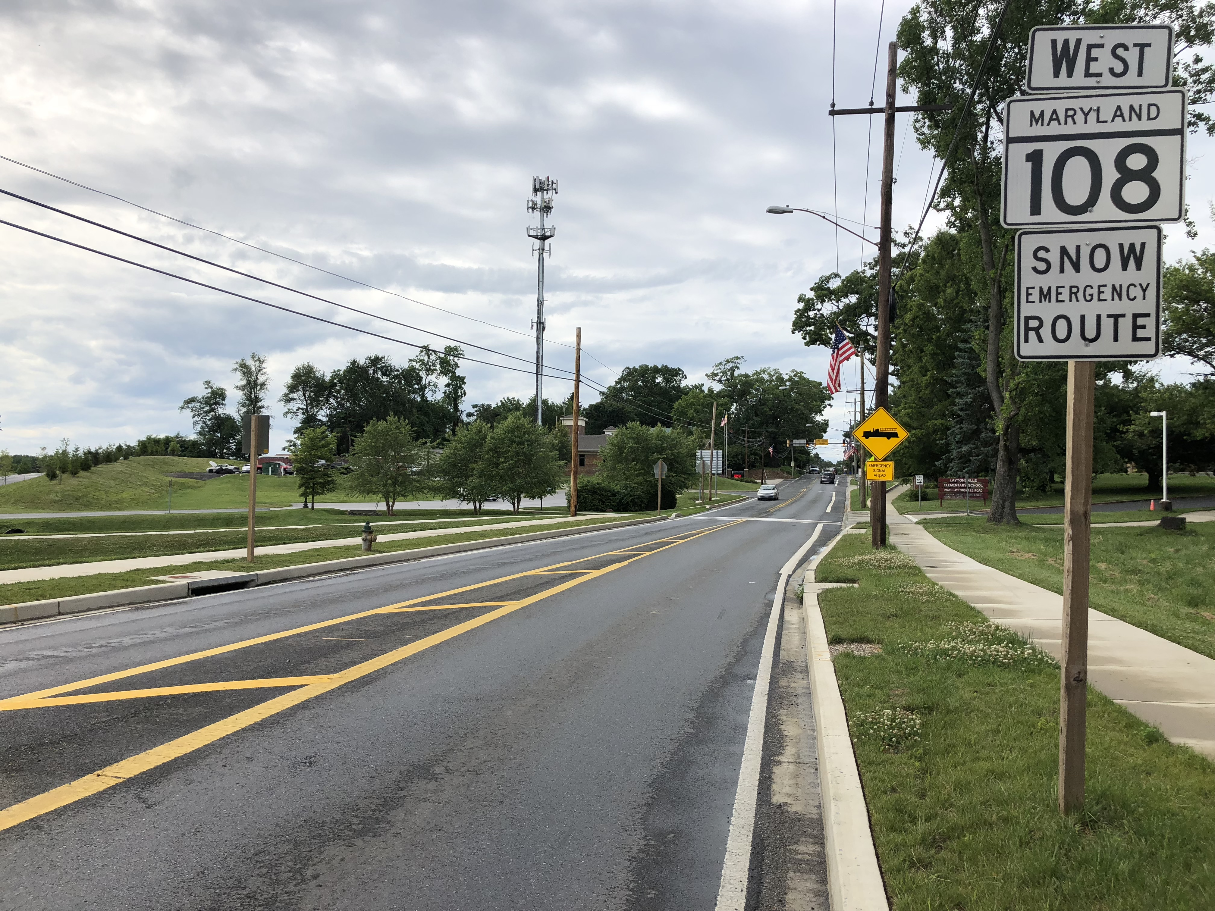 View west along Maryland State Route 108 (Laytonsville Road) just west of Willow Lane in Laytonsville, Montgomery County, Maryland